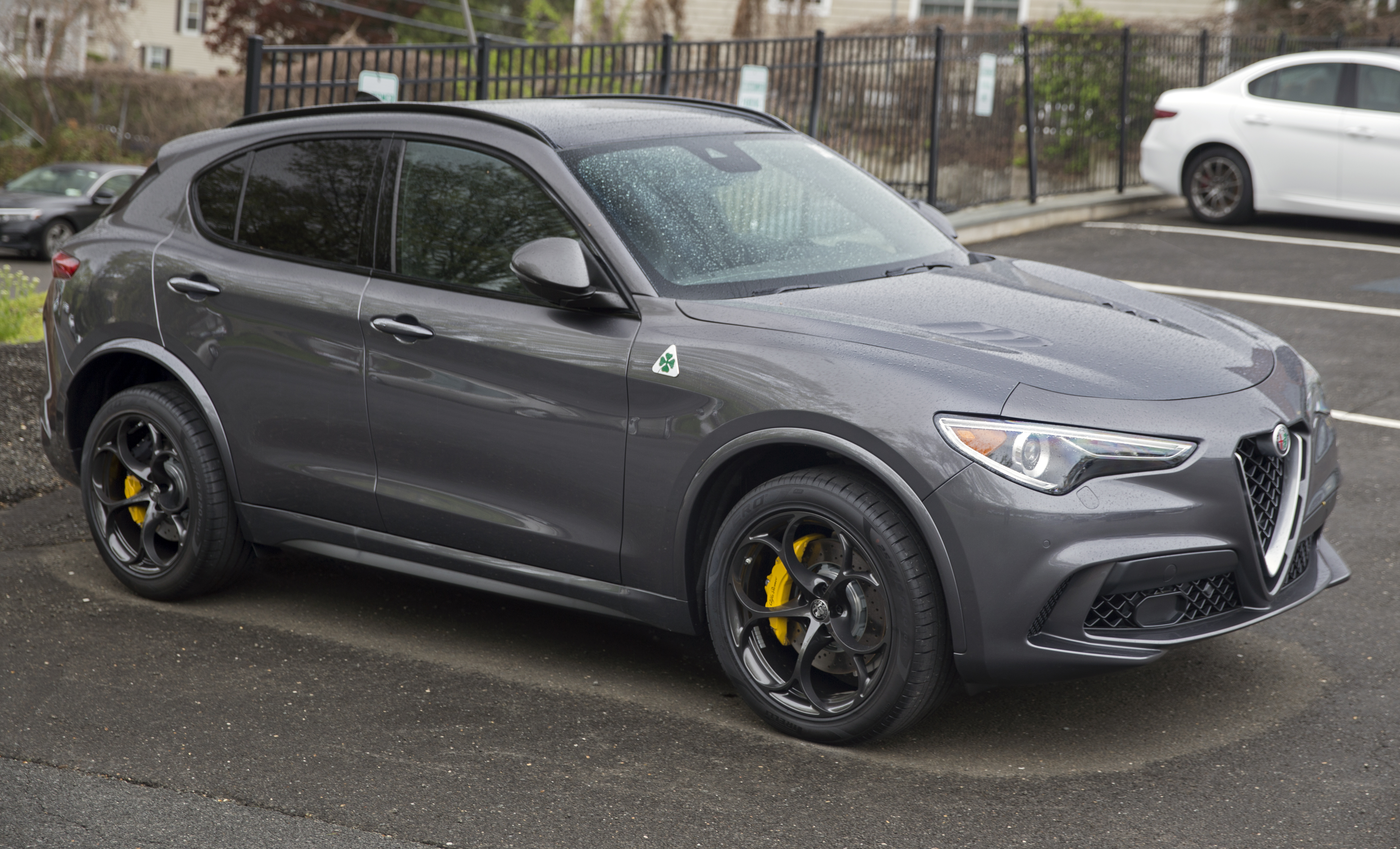 A 2019 Alfa Romeo Stelvio Quadrifoglio Verde 4WD in Vesuvio Gray. 505hp is a lot. Fitted with a dual-pane sunroof and Gloss Black shark fin antenna.